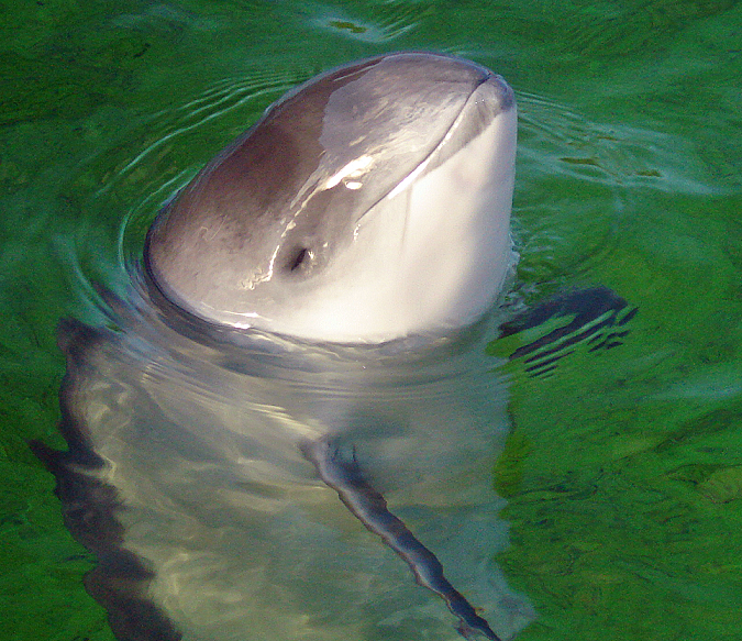 Close-up of a phocoena phocoena